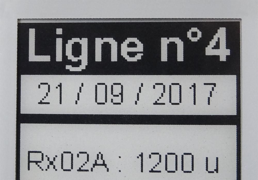 Detail of dual color industrial electronic label